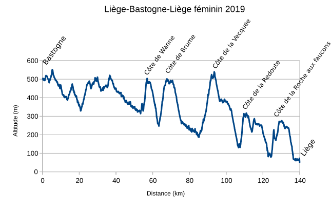 Liège-Bastogne-Liège women 2019 profile